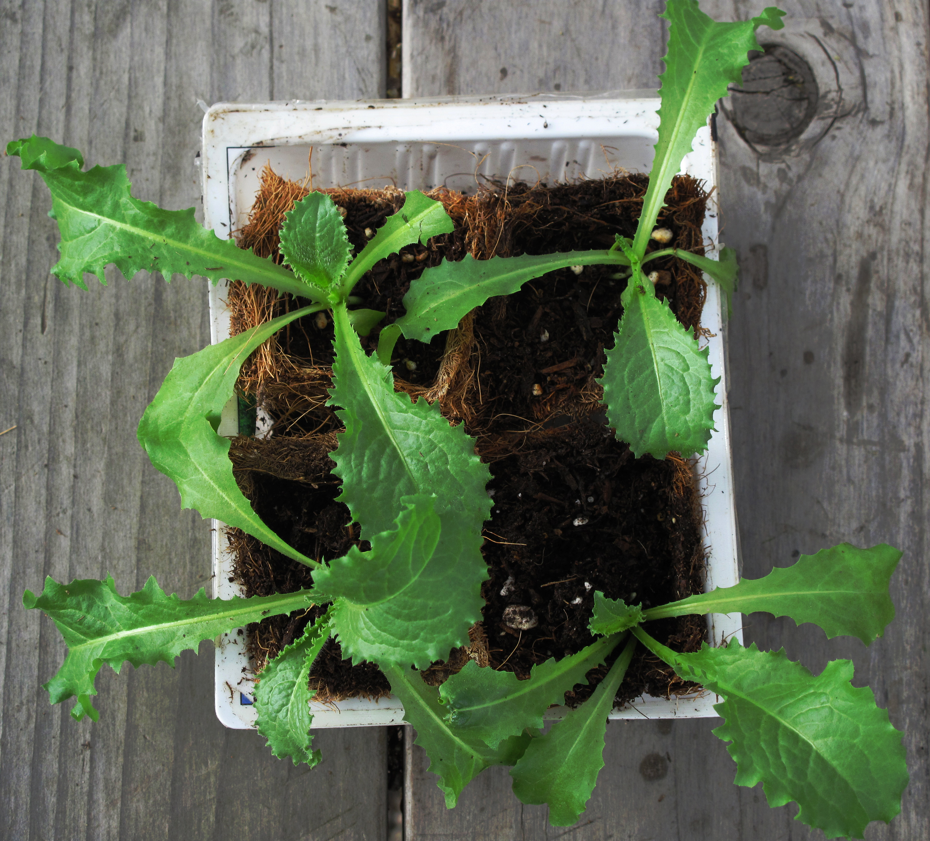 Leafy or curly endive seedlings in transplantable pots made of fiber.